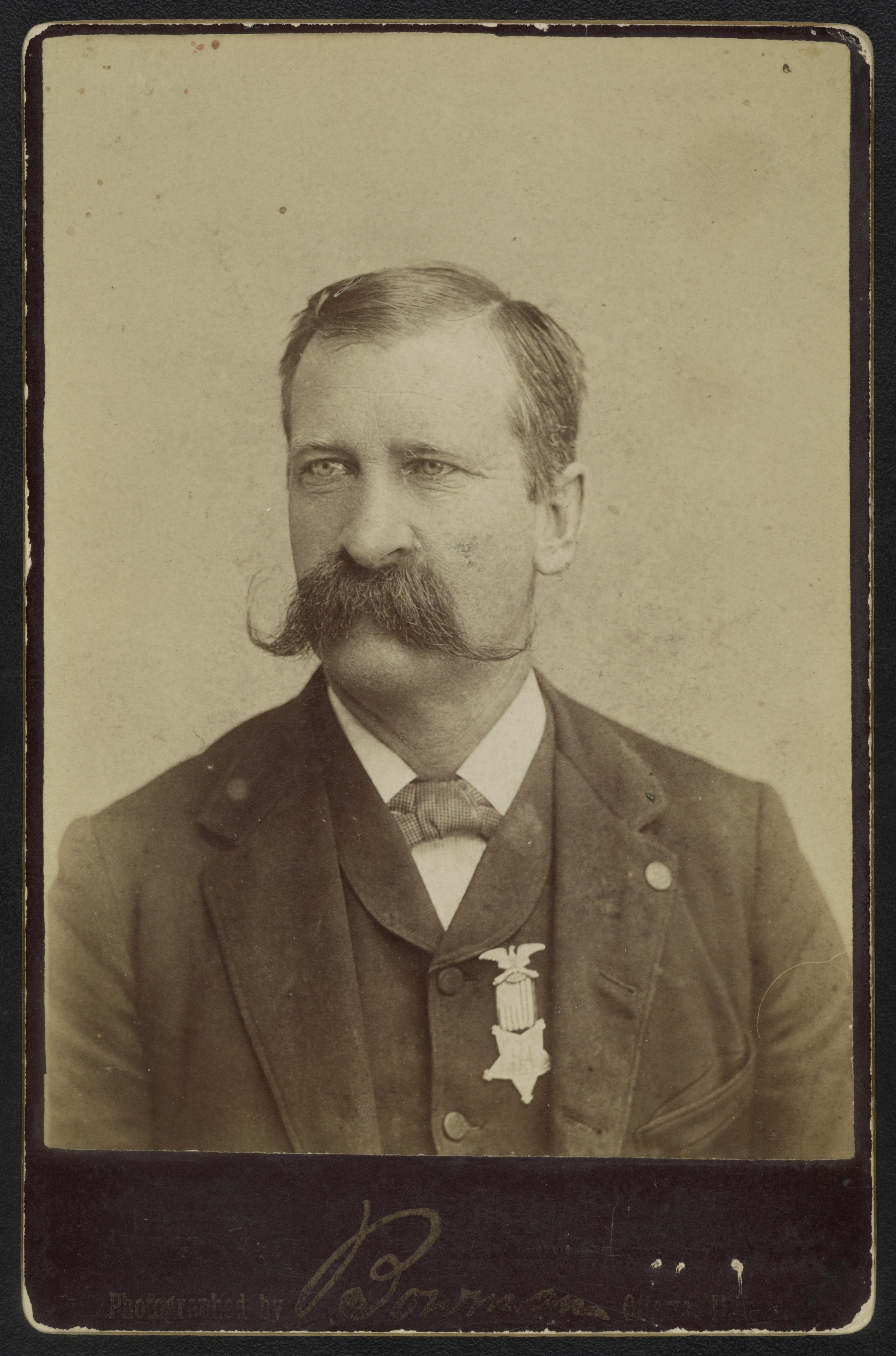 Title: John W. January, veteran of Co. B, 14th Illinois Cavalry Regiment with medal] / Photographed by Bowman, Ottawa, Ills Abstract/medium: 1 photograph : albumen print on card mount ; mount 17 x 11 cm (cabinet card format)